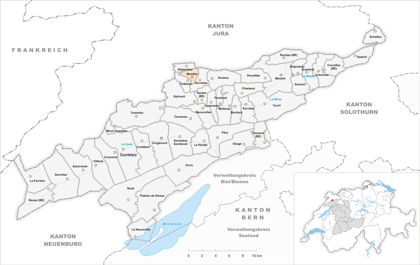 Municipality Monible